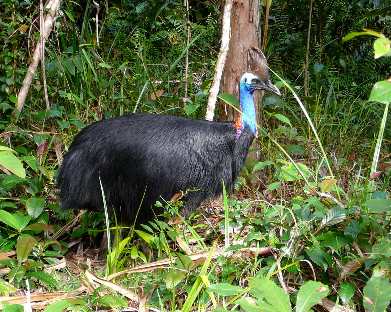 Southern Cassowary Casuarius casuarius johnsoni in the tropical rainforest of north Queensland, Australia